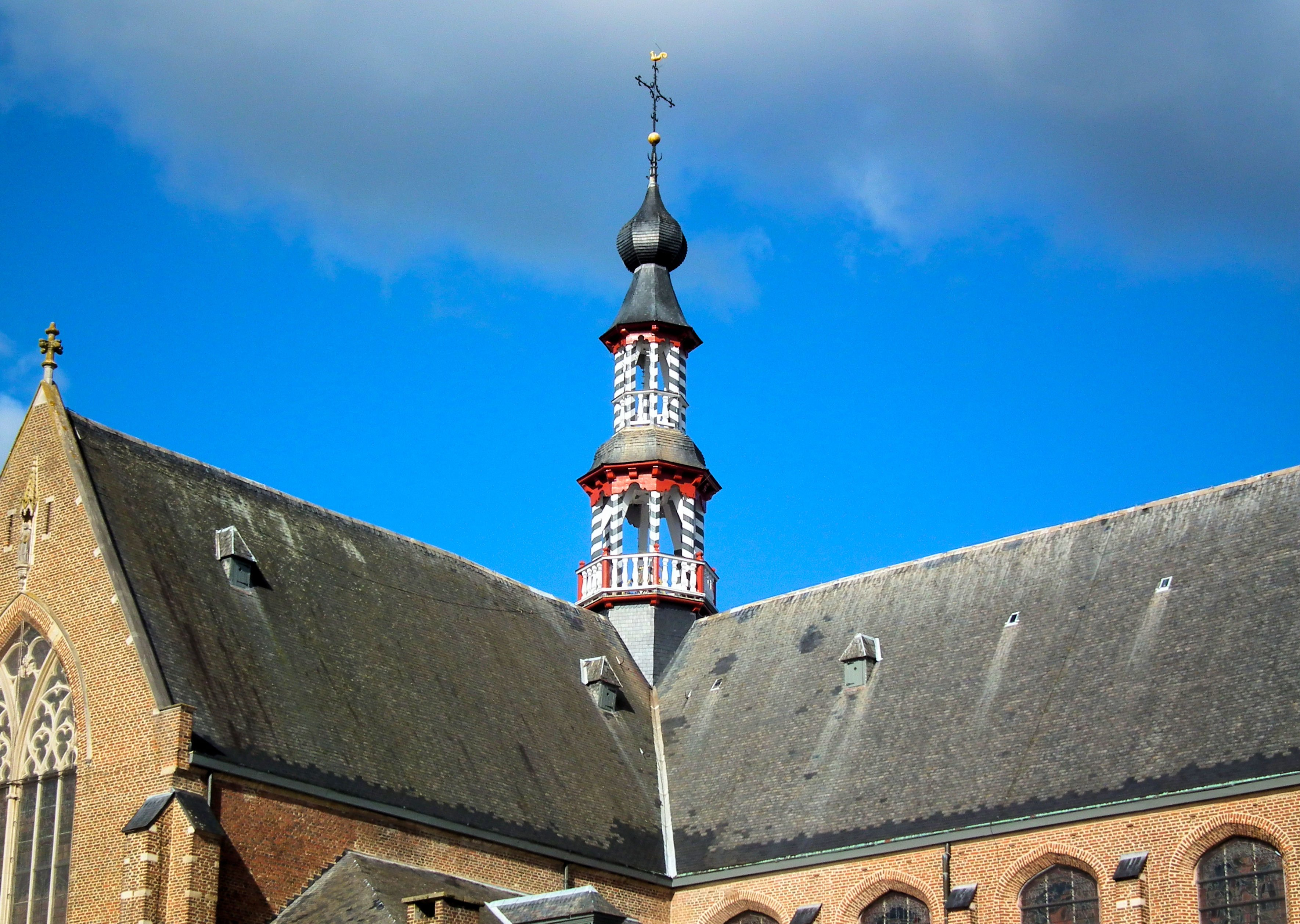 Belgium - Turnhout. Grote Markt (Main Market) with Saint Peter Church